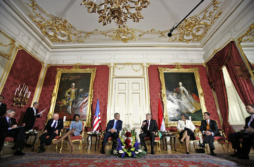 President George W. Bush meets with Hungarian President Laszlo Solyom at Sandor Palace in Budapest, Hungary, Thursday, June 22, 2006. Also pictured, from left, are: U.S. Ambassador George Walker; Secretary of State Condoleezza Rice; Hungarian Minister of Foreign Affairs Kinga Goncz; and Hungarian Ambassador Andras Simonyi. White House photo.